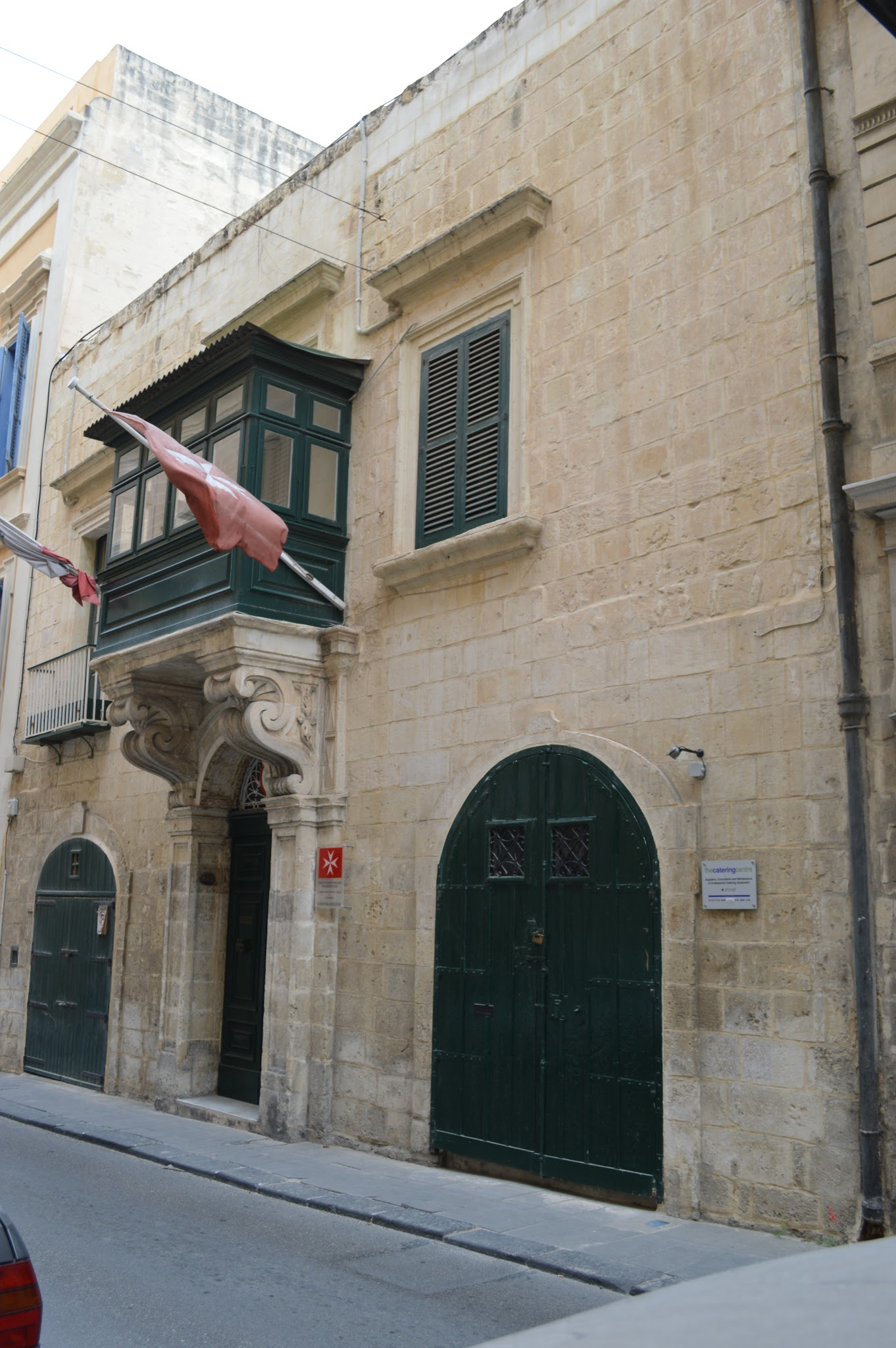 Valletta This media is about Maltese cultural property with inventory number 01572.